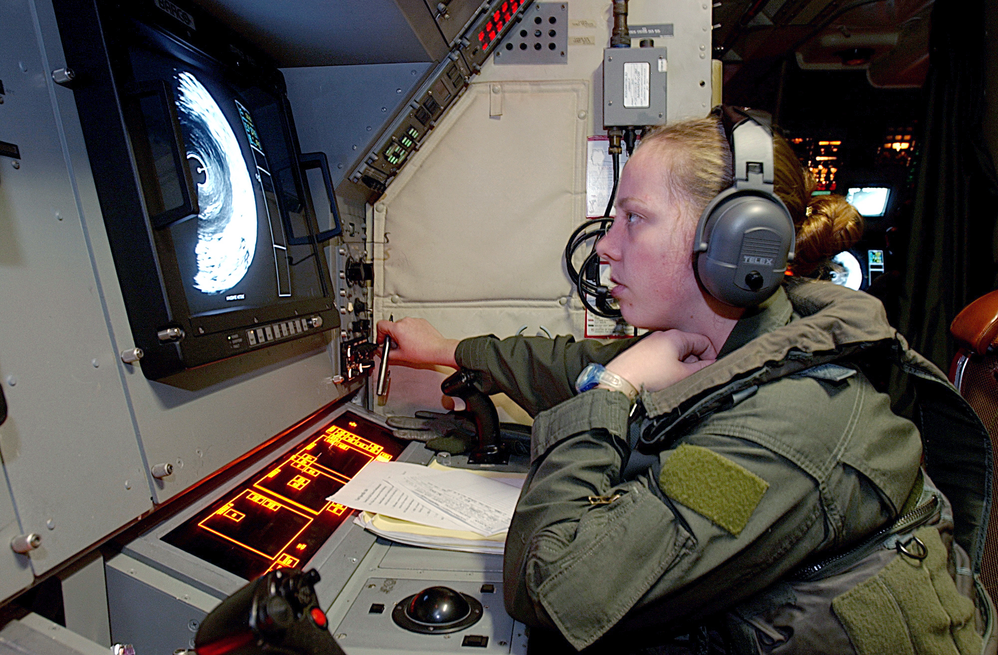 030509-N-6501M-014 Okinawa, Japan (May 9, 2003) -- Aviation Warfare Systems Operator 2nd Class Theresa R. Donahue monitors a video display of the Sensor Two Station aboard a P-3C Orion aircraft during a mission en route to the Republic of the Philippines. Petty Officer Donahue is attached to the “Golden Eagles” of Patrol Squadron Nine (VP-9), deployed to Kadena Air Base in Okinawa, Japan in support of Operation Enduring Freedom. U.S. Navy photo by Photographer’s Mate 1st Class Edward G. Martens. (RELEASED)